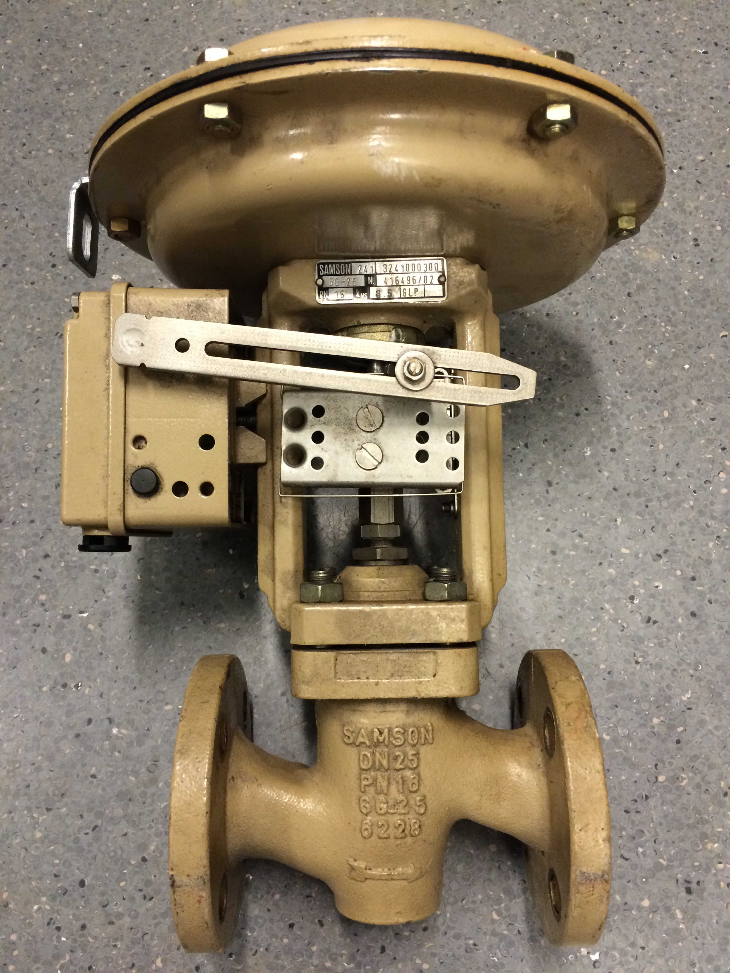 Control valve with positioner